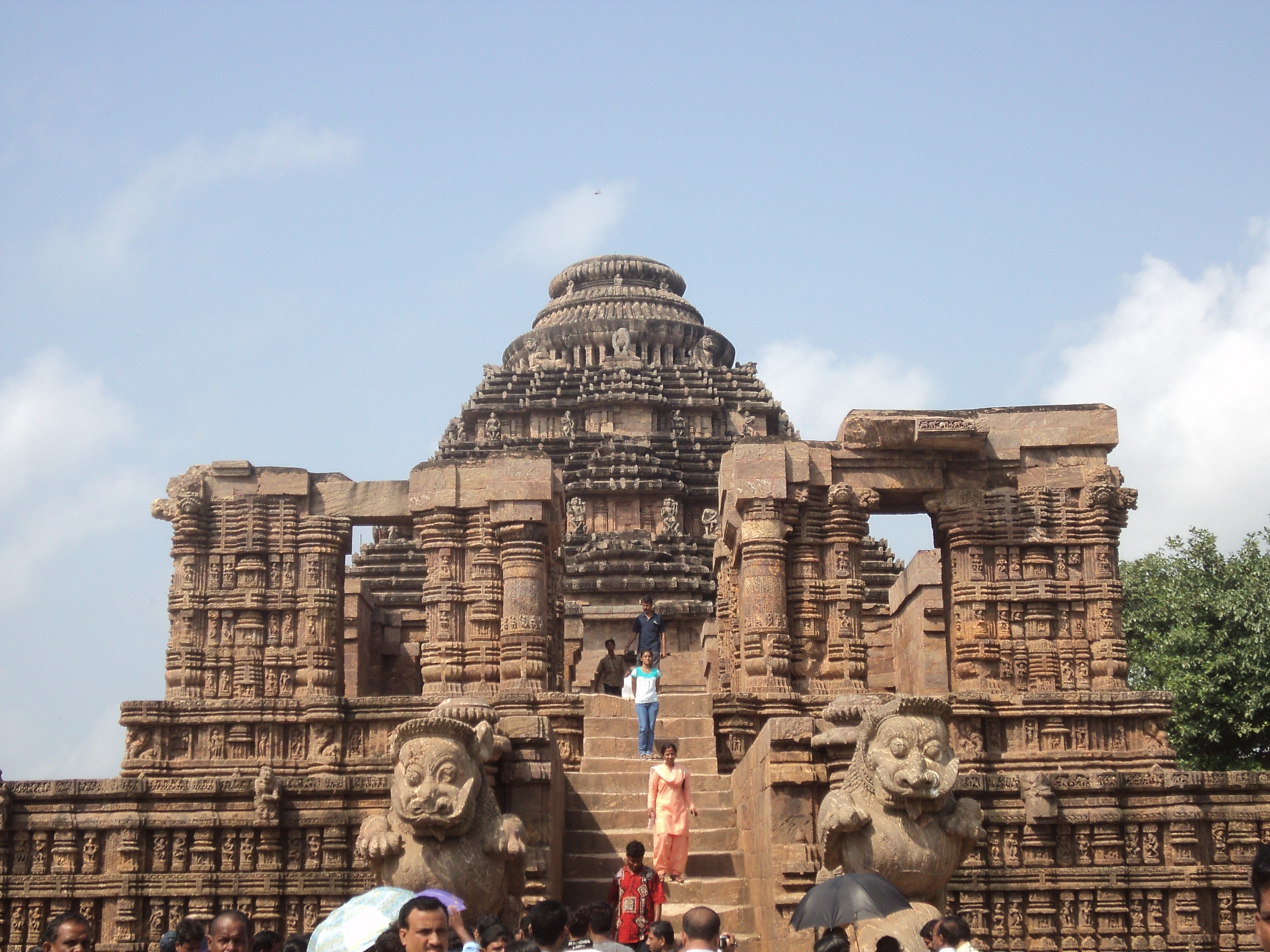 Konark Sun Temple is a 13th century Sun Temple (also known as the Black Pagoda), at Konark, in Orissa. It was constructed from oxidized and weathered ferruginous sandstone by King Narasimhadeva I (1238-1250 CE) of the Eastern Ganga Dynasty. The temple is an example of Orissan architecture of Ganga dynasty . The temple is one of the most renowned temples in India and is a World Heritage Site.